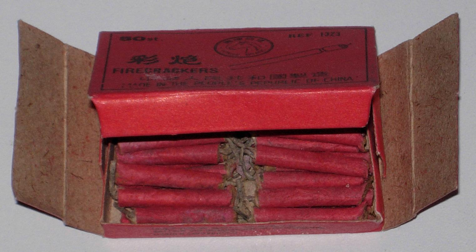 A box of Chinese squibs.